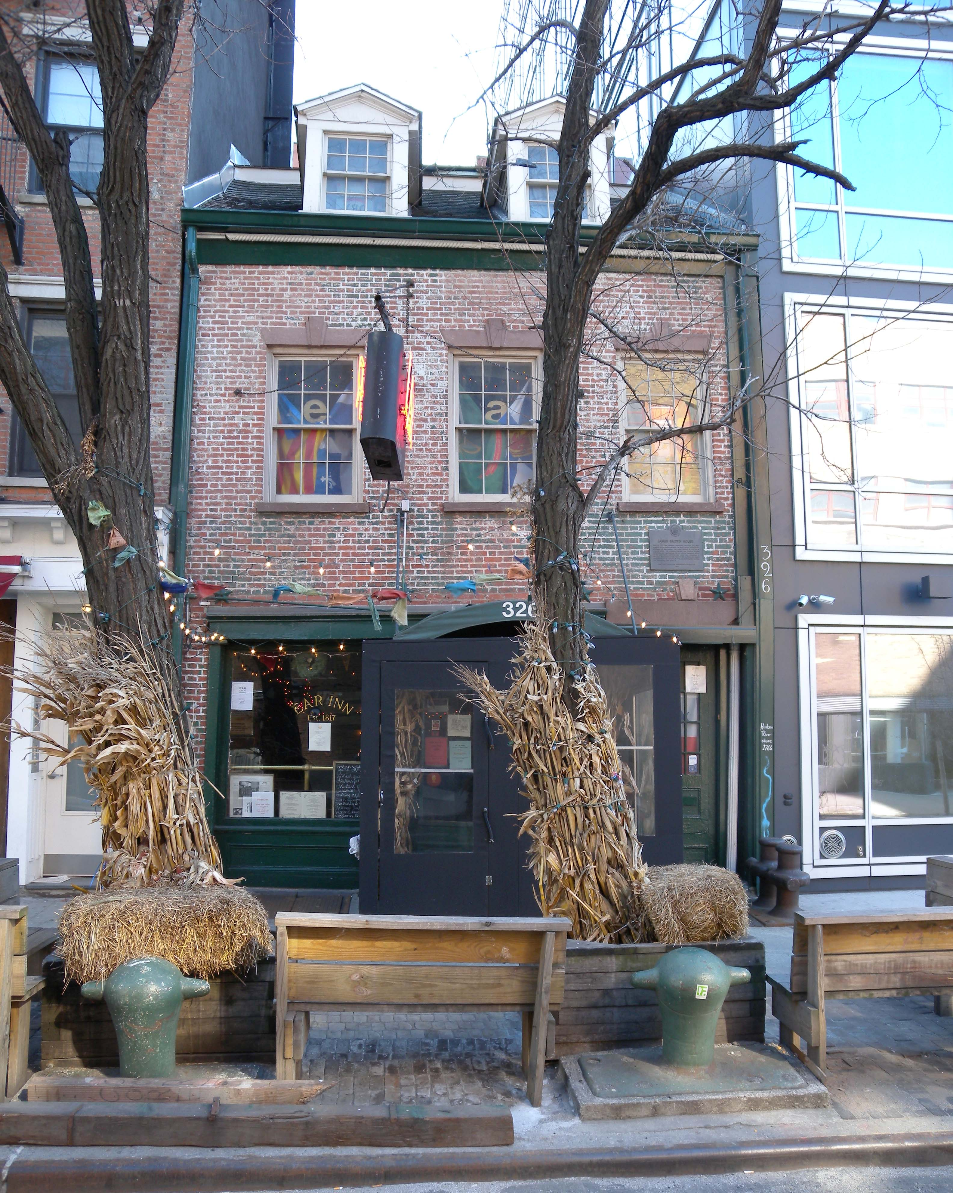 Looking south aross Spring Street at James Brown House (Manhattan) on a sunny afternoon. NYCLPC designation 1969. Guidebook map 5; Manhattan Community Board 2.